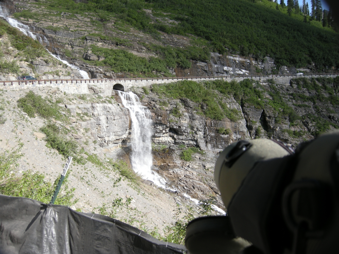 Black Swift nest with egg, Glacier NP, July 5, 2012